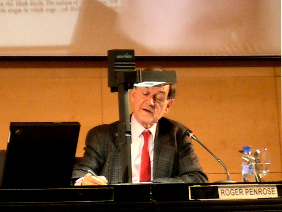 Roger Penrose at a conference